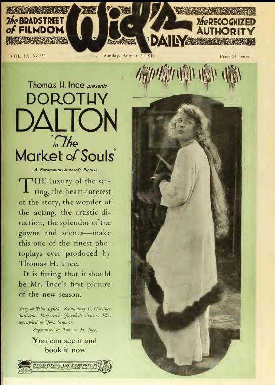 Dorothy Dalton in The Market of Souls, a film directed by Joseph De Grasse.